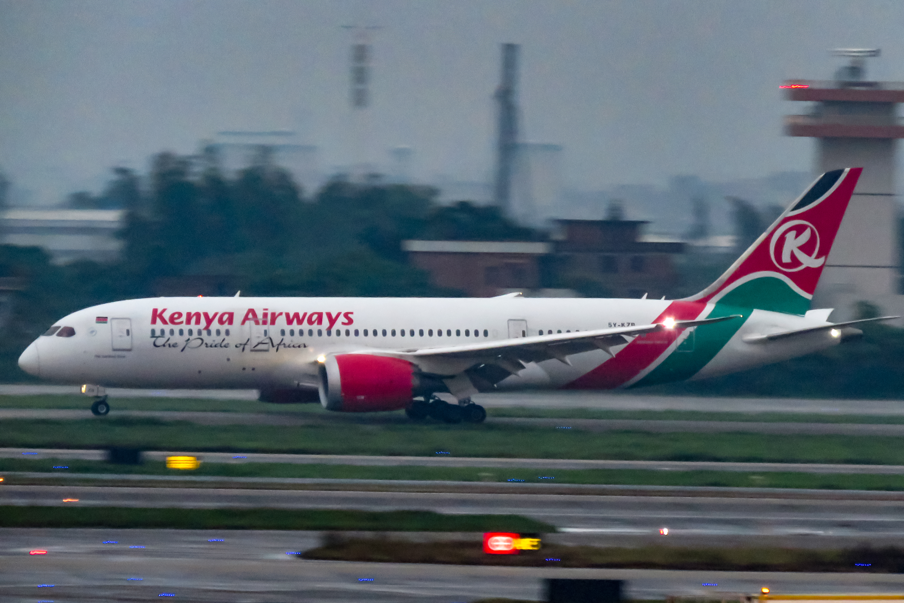 Kenya 886 from Nairobi and Bangkok. After all, look at the African population in Guangzhou...